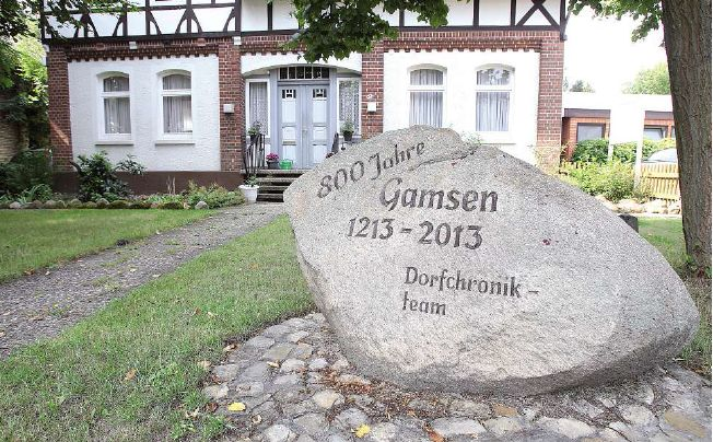 Mit Vorstellung der Dorf-Chronik wurde 2013 dieser Stein aufgestellt.